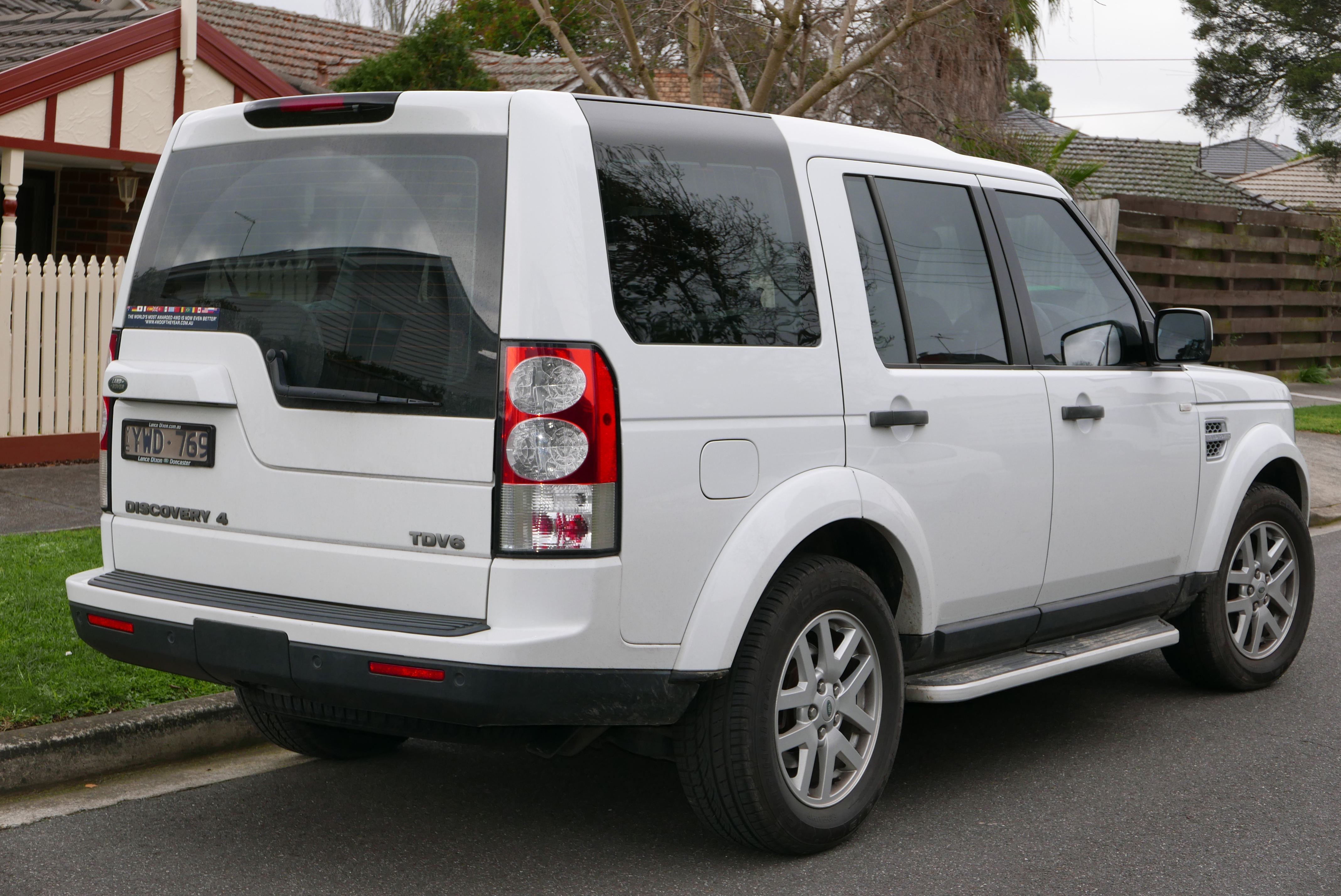 2012 Land Rover Discovery 4 (L319 MY12) TDV6 wagon. Photographed in Box Hill North, Victoria, Australia. Vehicle registration enquiry resultsJurisdictionVictoriaRegistrationYWD769Chassis codeSALLAAA13CA614721Engine code0608840276DTCompliance date2012-03Year of manufacture2012